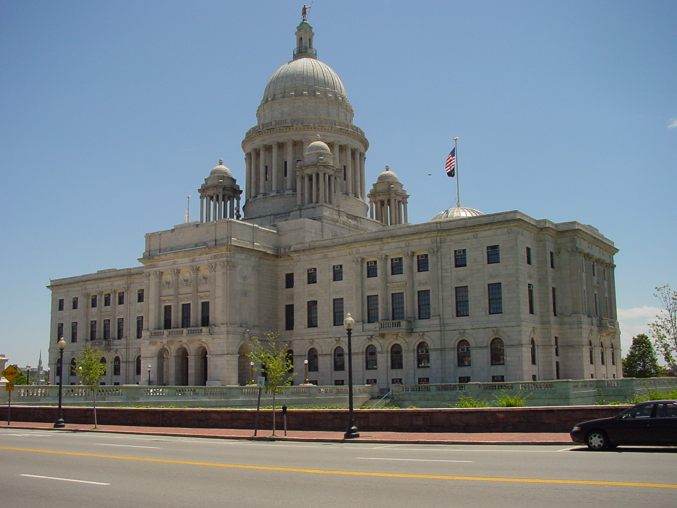 This photograph shows the north facade of the Rhode Island State House in Providence. It was taken on 2004-05-29. This resolution made available by personal consent of the photographer. Copyright 2004, Garrett A. Wollman.